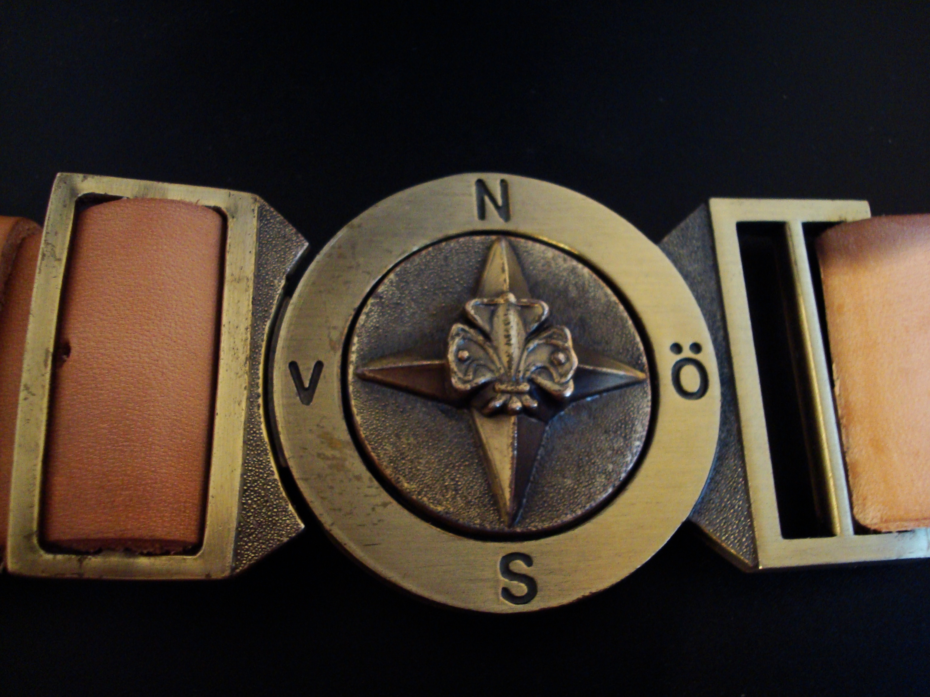 Picture of the Swedish Explorer Belt belt.